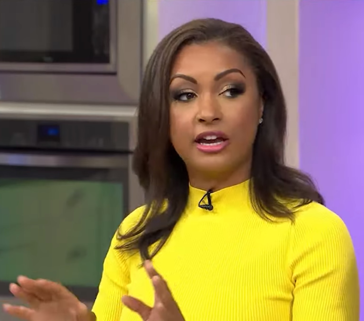 Eboni K. Williams is an attorney, best-selling author, tv correspondent. She came down to The Circle to chat about hosting Revolt’s new talk show, “State Of The Culture” and more. ++ Catch Sister Circle Monday - Friday at 12|11c on TVOne. Make sure to follow us on our other social media channels to get the 360 experience of the show! Twitter | Instagram: @sistercircletv